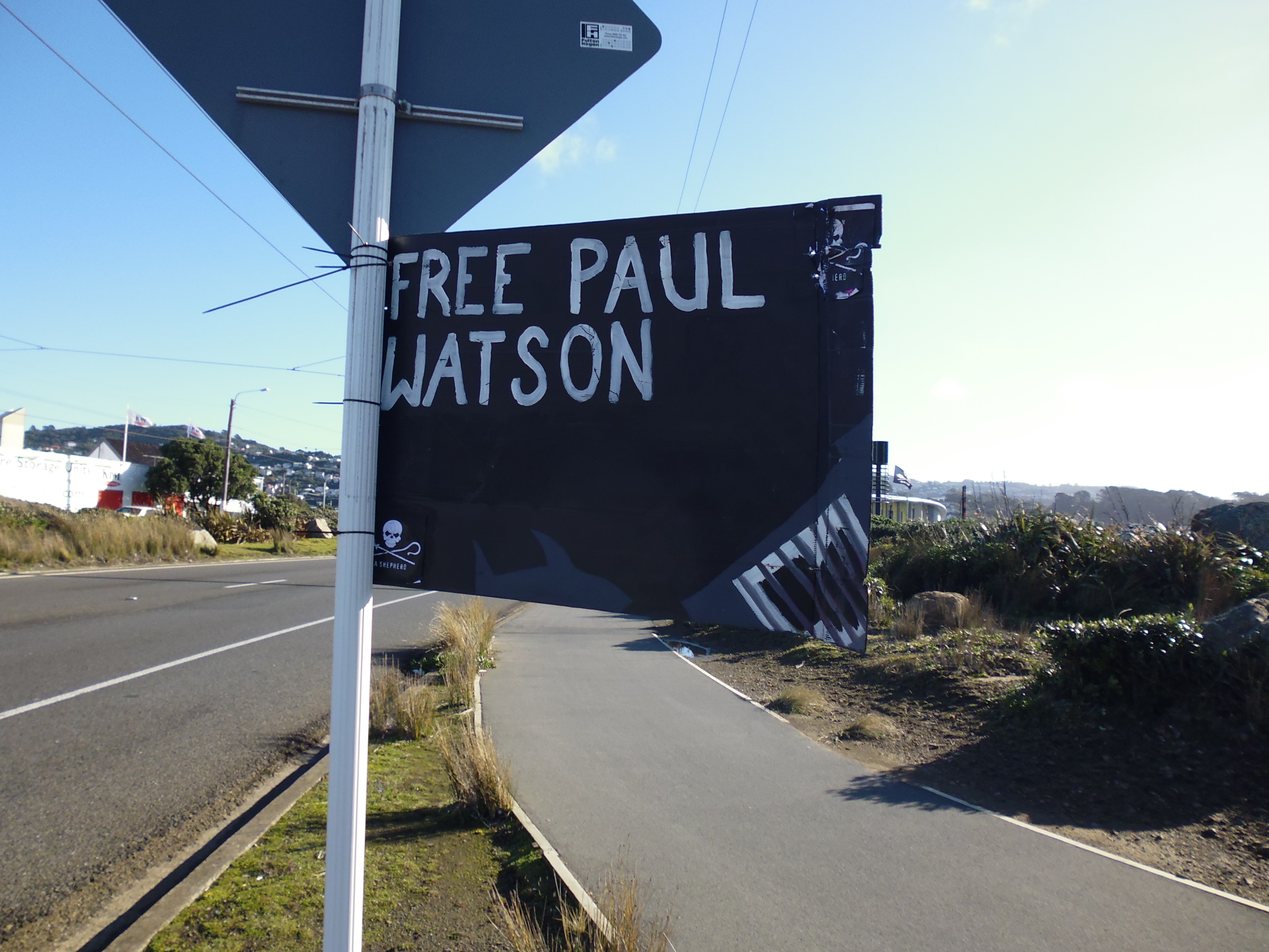 A sign calling for the dropping of charges against environmentalist Paul Watson. This sign was near a beach cleanup near the end of the runway of Wellington International Airport. The cleanup seemed to be affiliated with Sea Shepherd.